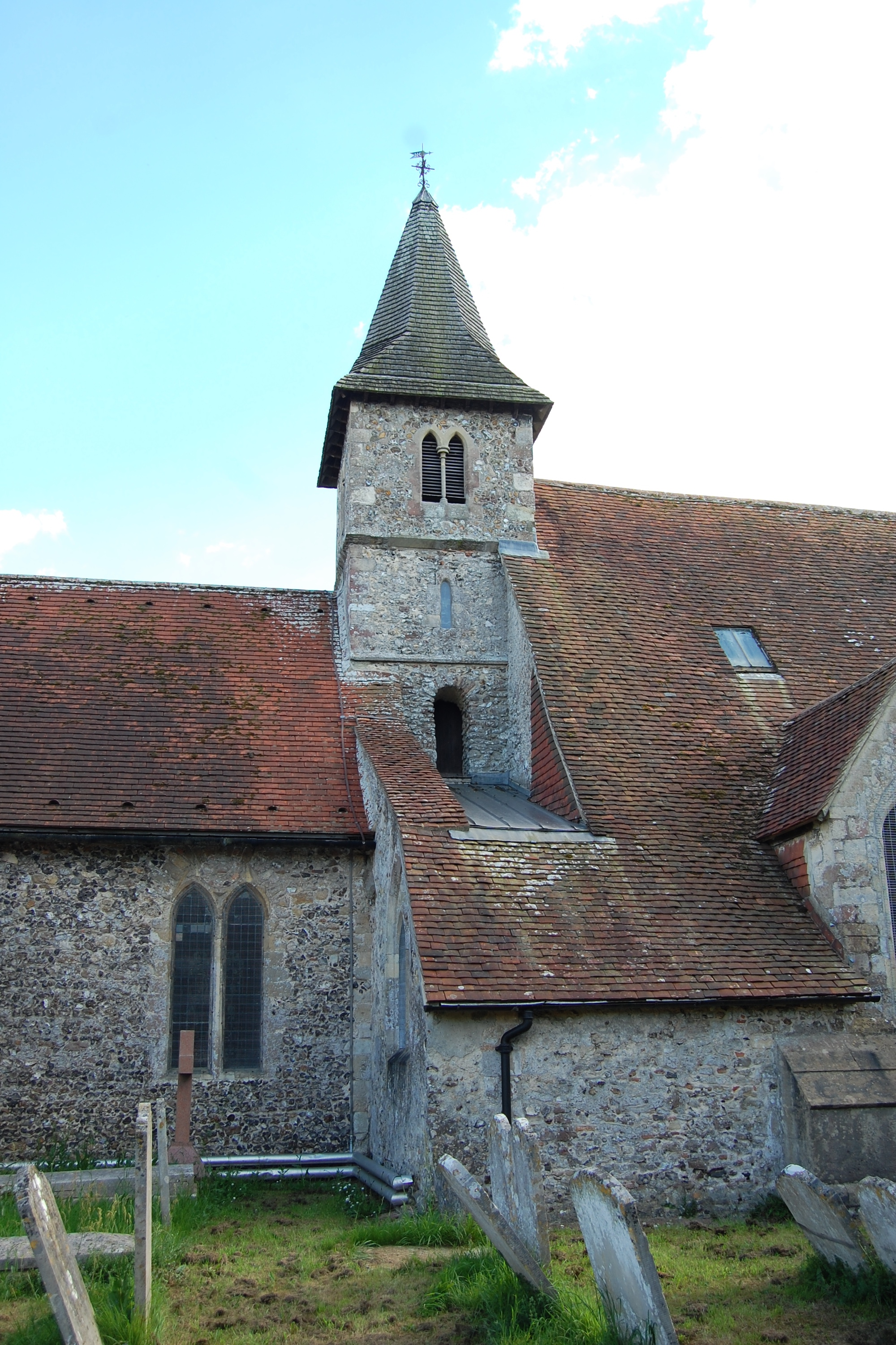 St Thomas a Becket's Church, Church Lane, Warblington, Hampshire, England. The Anglican parish church of Warblington. A Grade I-listed building.